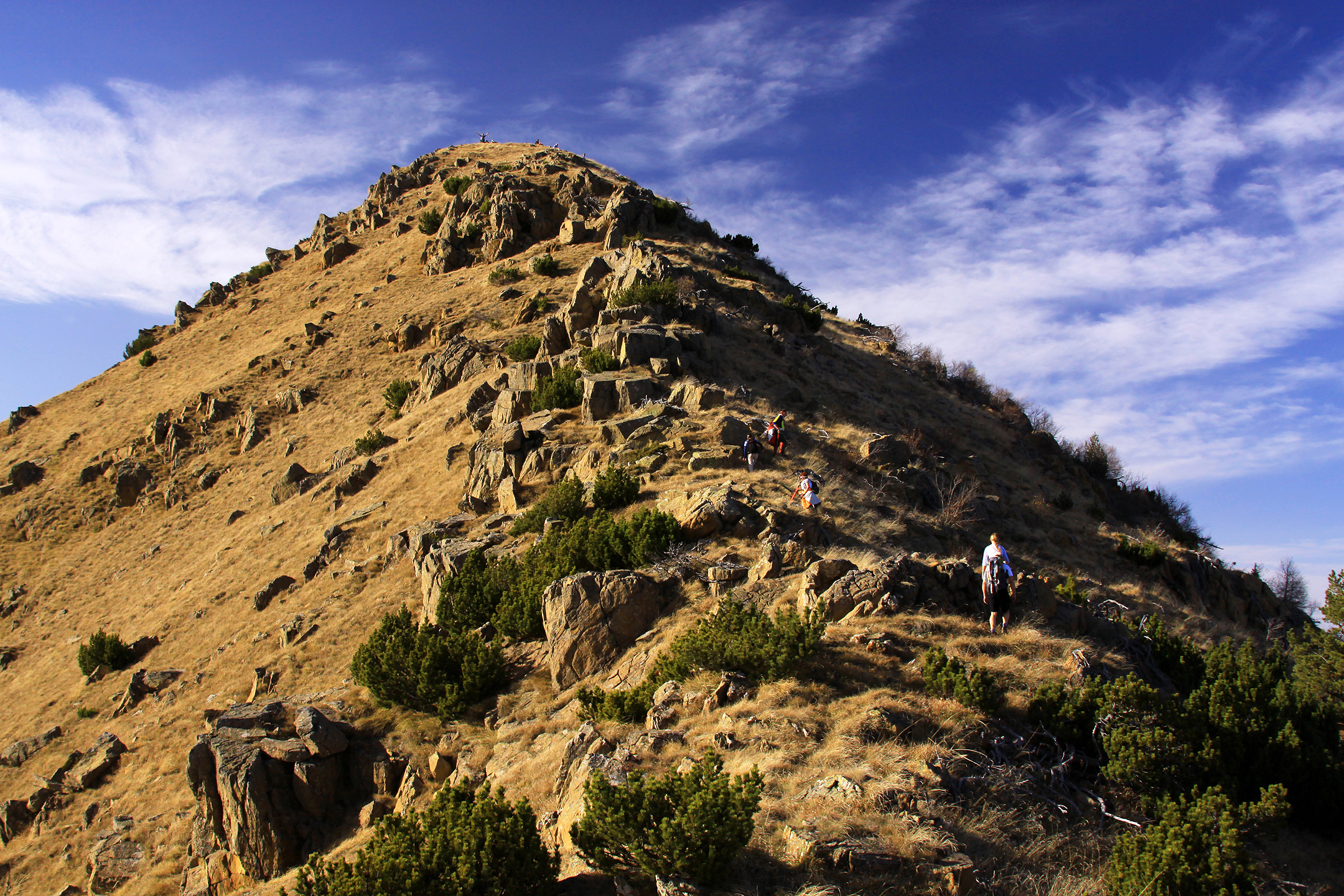 Getting close to Pashallore / Ostervica summit 2092 m alt.